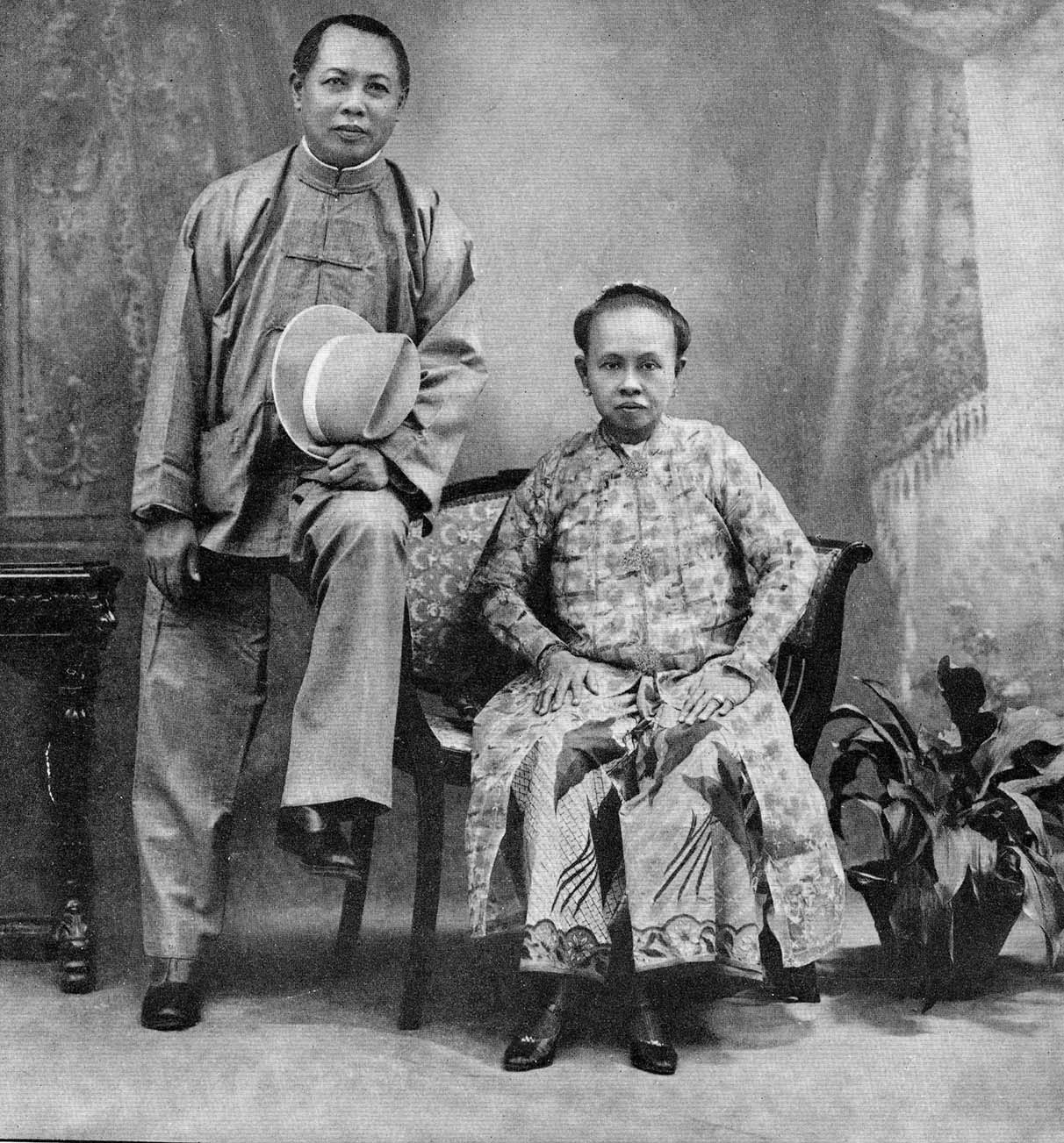 Lim Chin Tsong and spouse, Tan Guat Tean (Daw Po U). Photo taken in 1920, Colombo, Ceylon